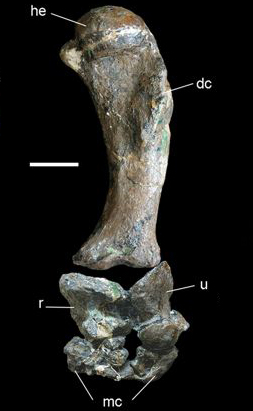 Forelimb of Carnotaurus (MACN-CH 894). Scale bar: 5 cm.